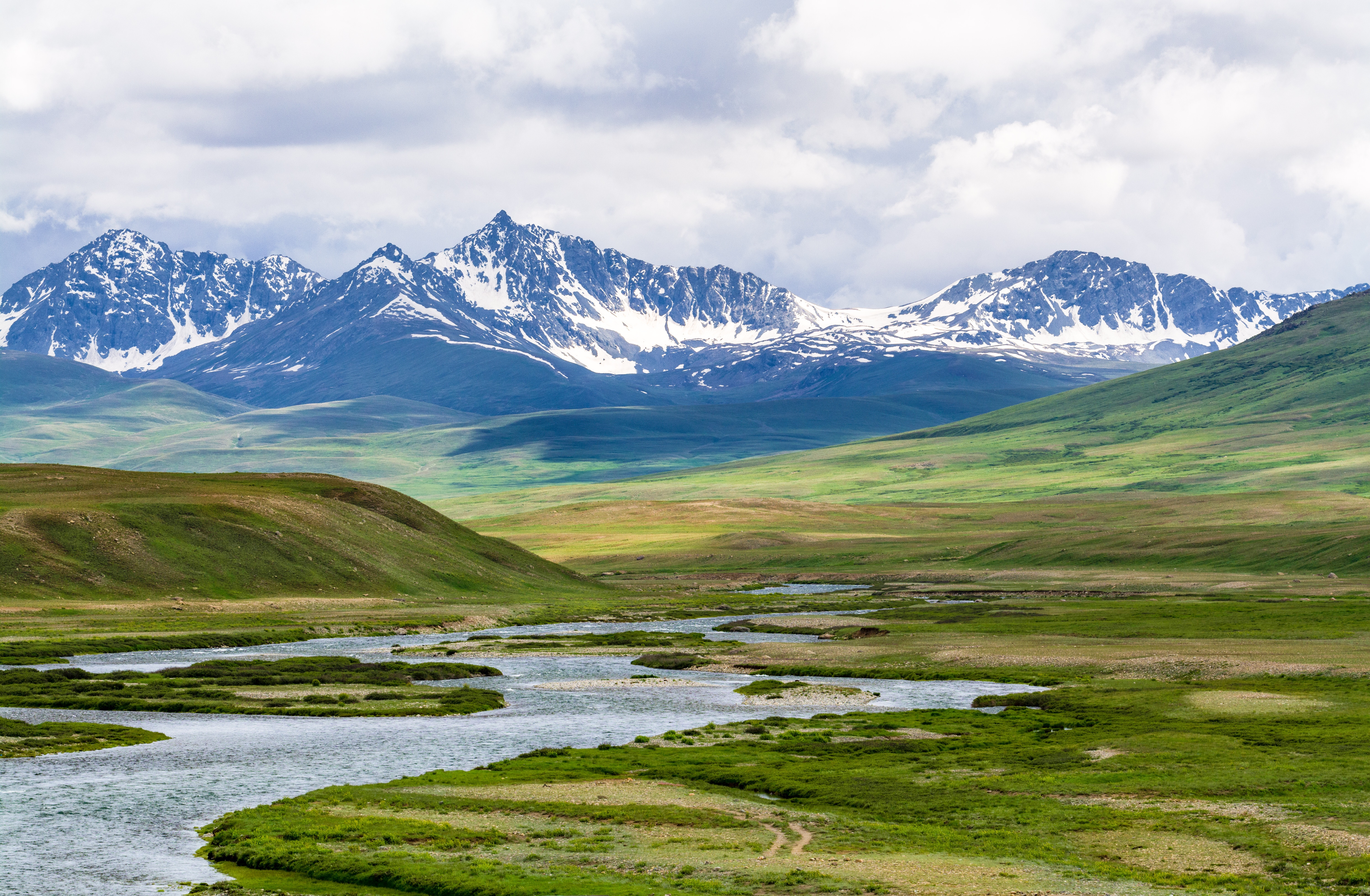 Deosai, Gilgit Baltistan, Pakistan.